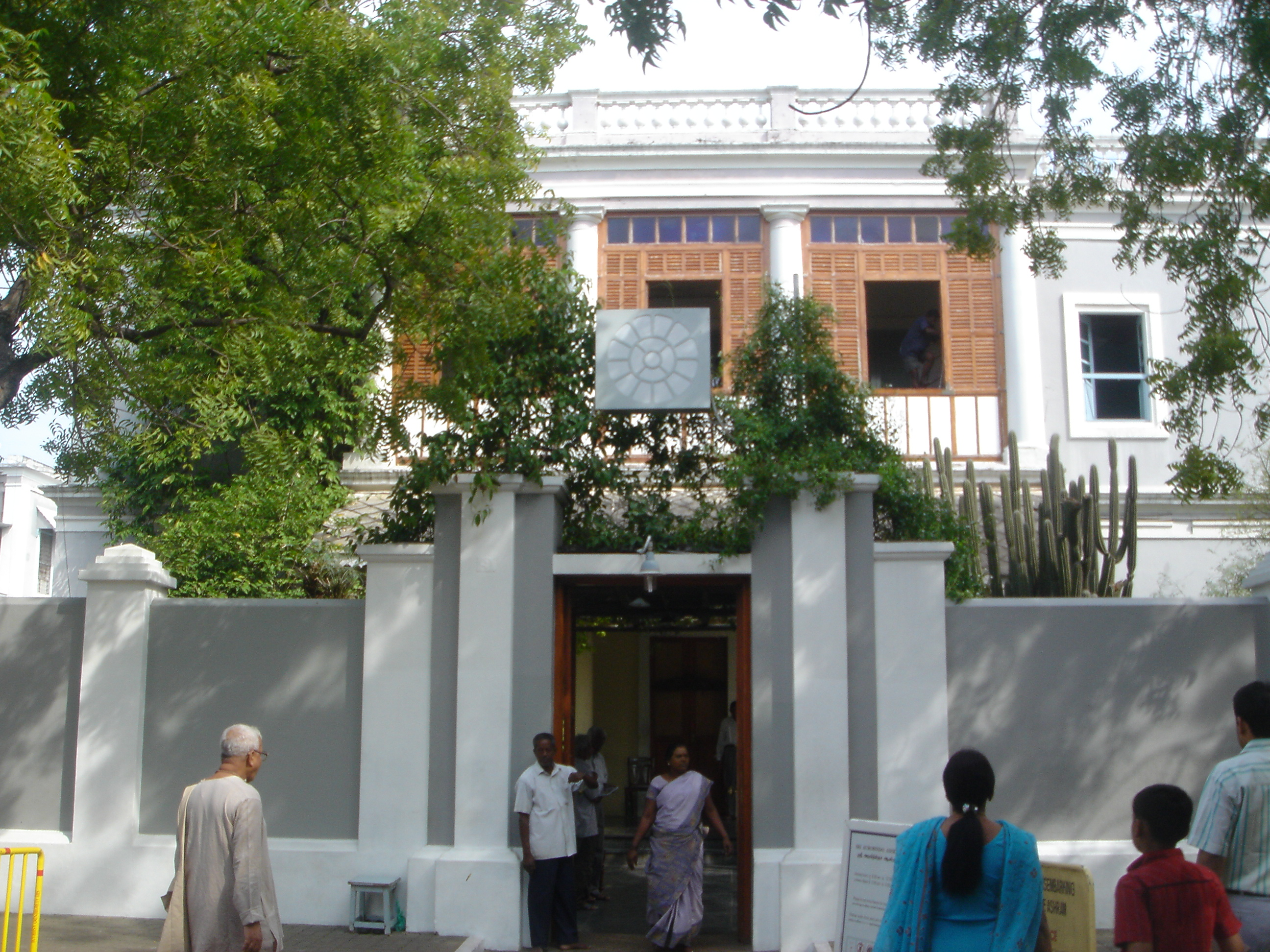 The Aurobindo Ashram in Puducherry, India